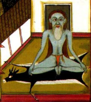 Illustration of Bhadragorakhasana (Gorakshasana) yoga pose from manuscript of, 1830.